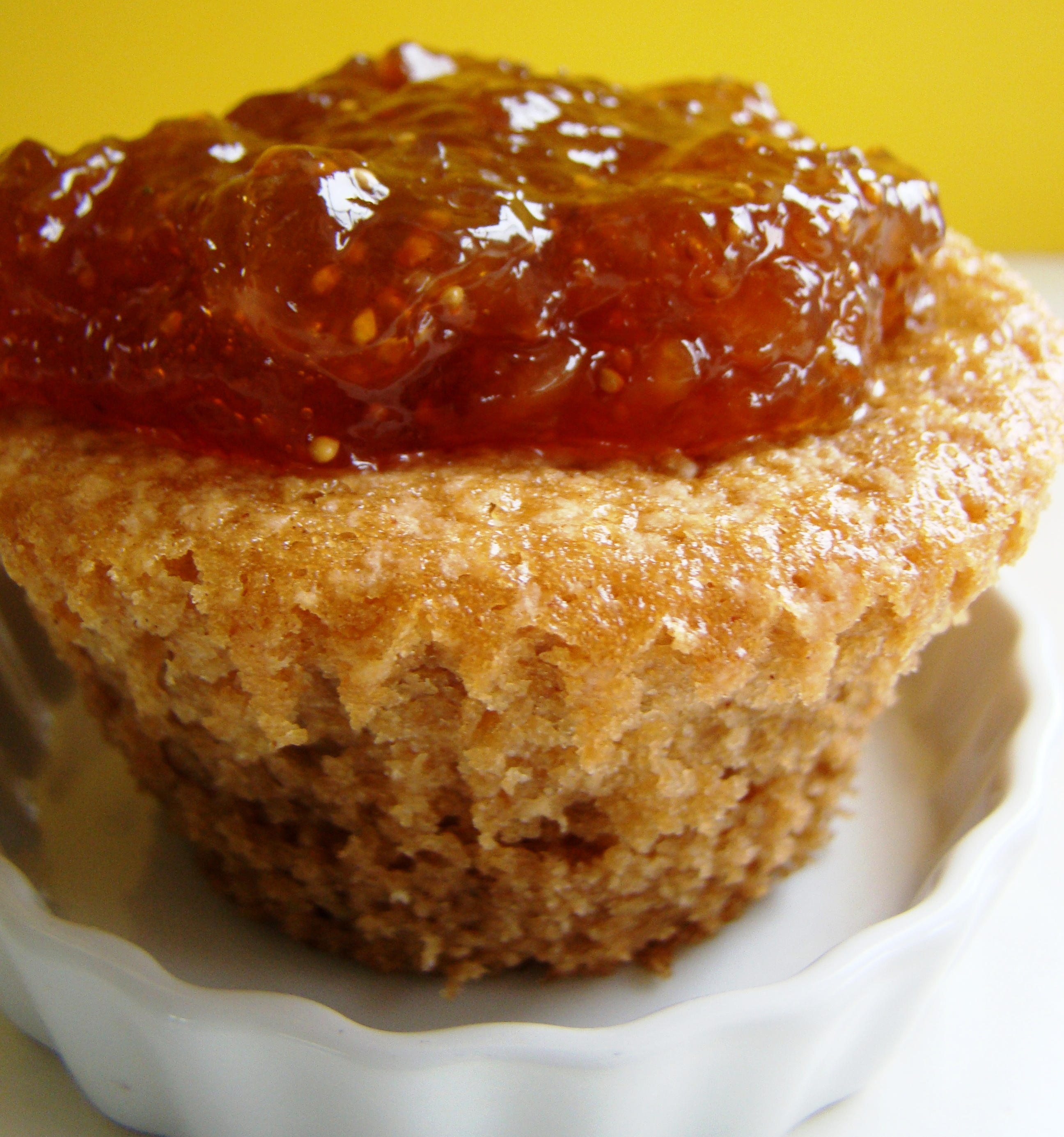 Bran Muffin with Tangelo Fig Compote.